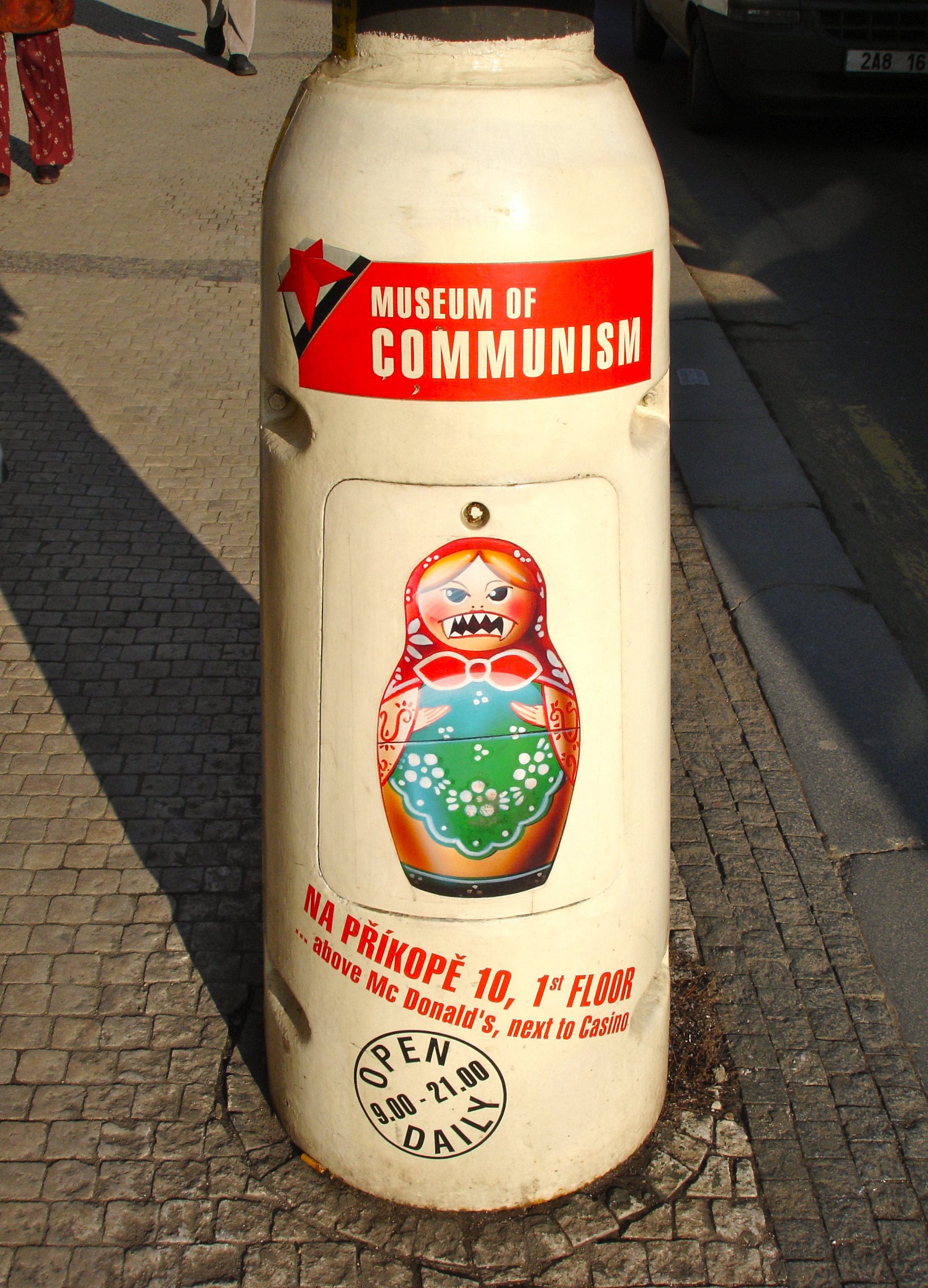 An advertisement for the Museum of Communism in Prague that was displayed on a streetlight in Prague (spring 2005).